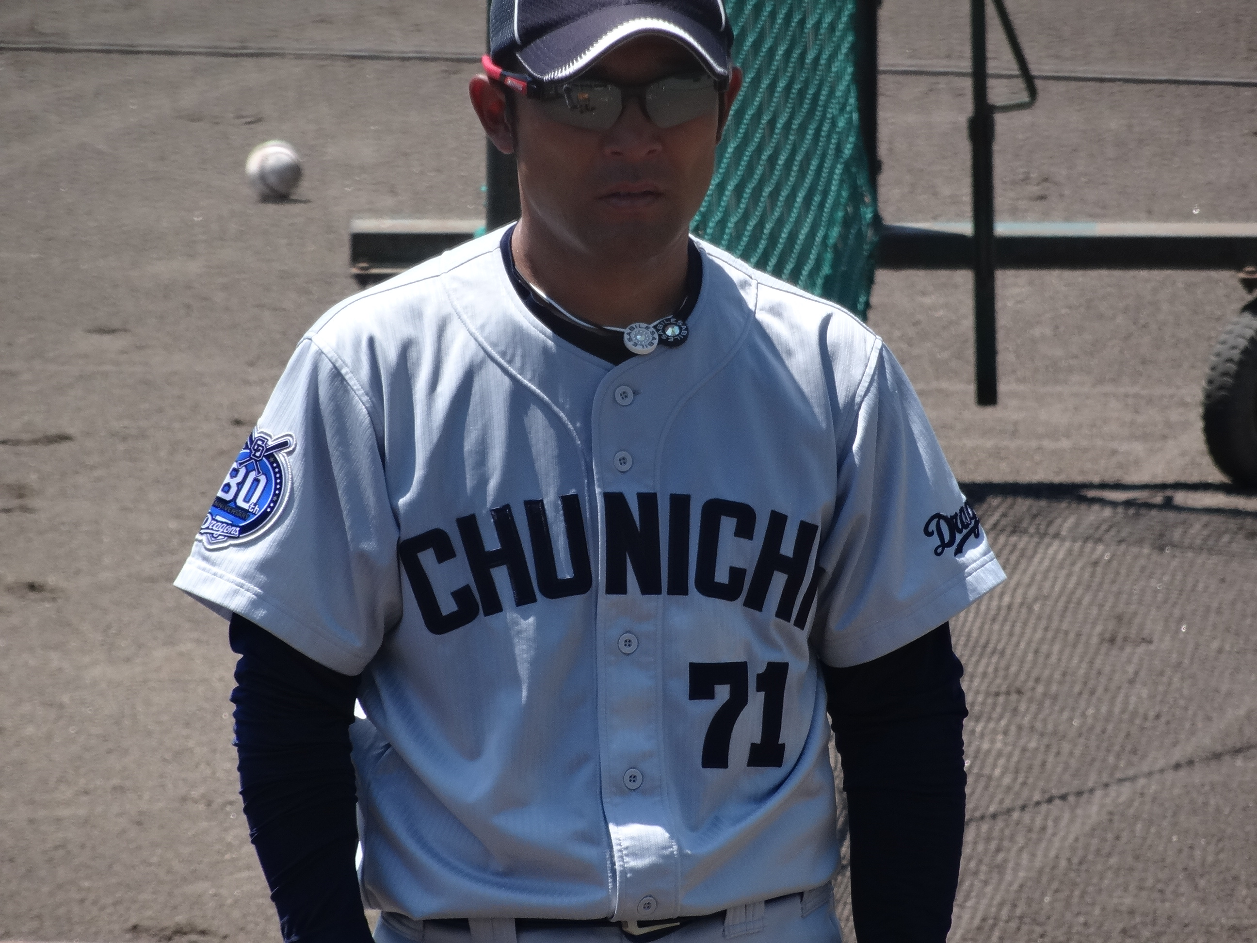 Toshio Haru, coach of the Chunichi Dragons, at Hanshin Naruohama Baseball Ground